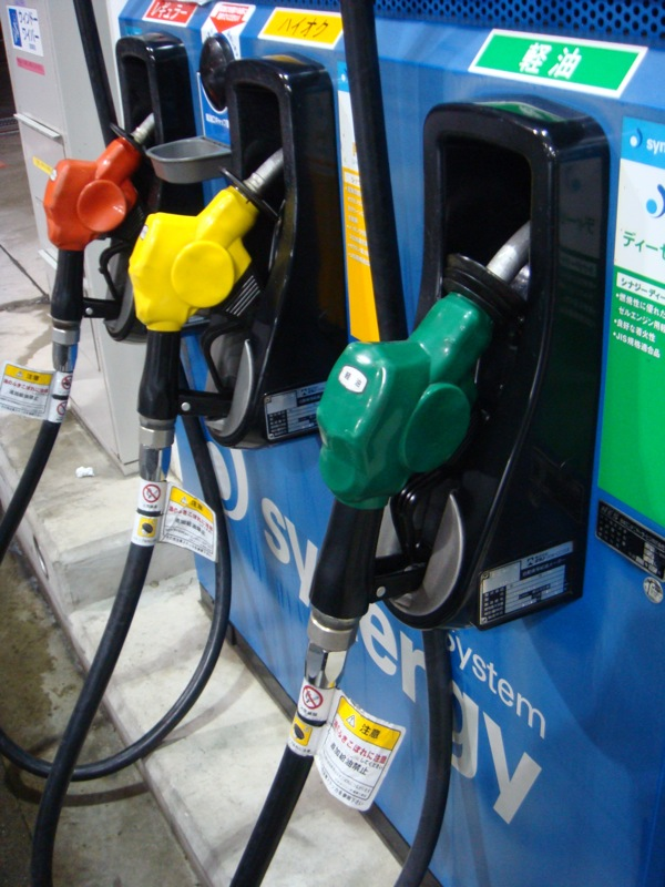 just before the big rise in gasoline price. many cars rushed in the filling stands until midnight. 31.May 2008 Sony cybershot T2